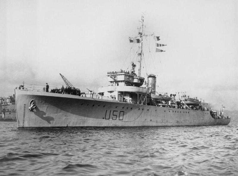 Photograph of British sloop HMS Rochester.